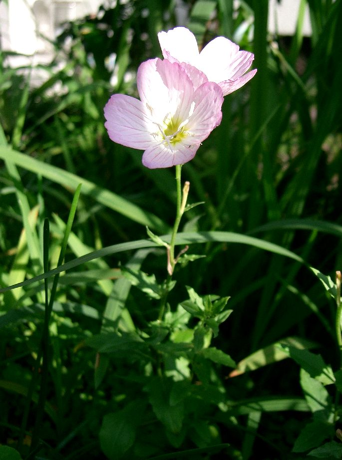 Oenothera speciosa